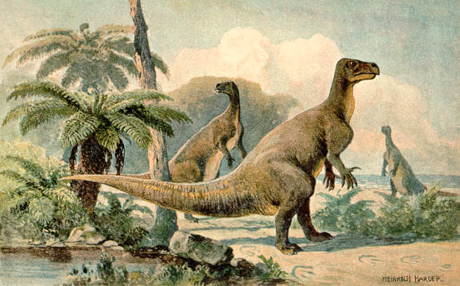 Iguanodon.